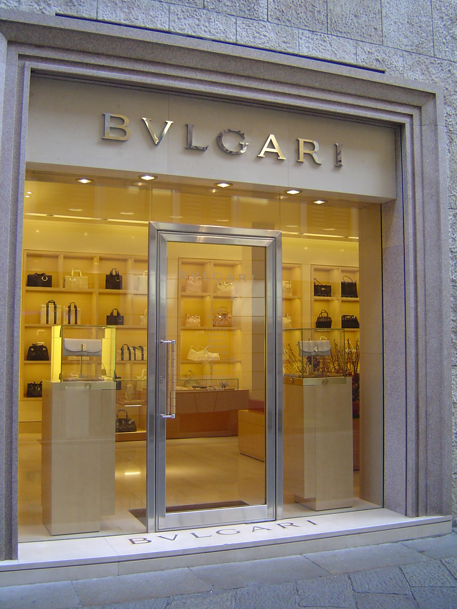 Bulgari store in Milan, Italy